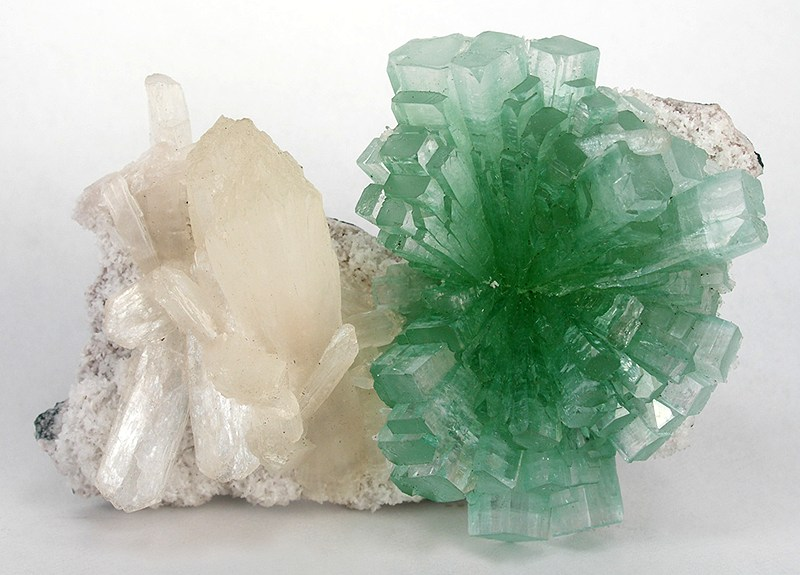 Natroapophyllite, Stilbite-Ca Locality: Rahuli Well Dig, Maharashtra, India Size: small cabinet, 8.2 x 5.7 x 3.1 cm Apophyllite with Stilbite The apophyllite spray, which measures 5 x 4 cm, is very 3-dimensional in person. The stilbite crystals are a fine accent to this excellent specimen.